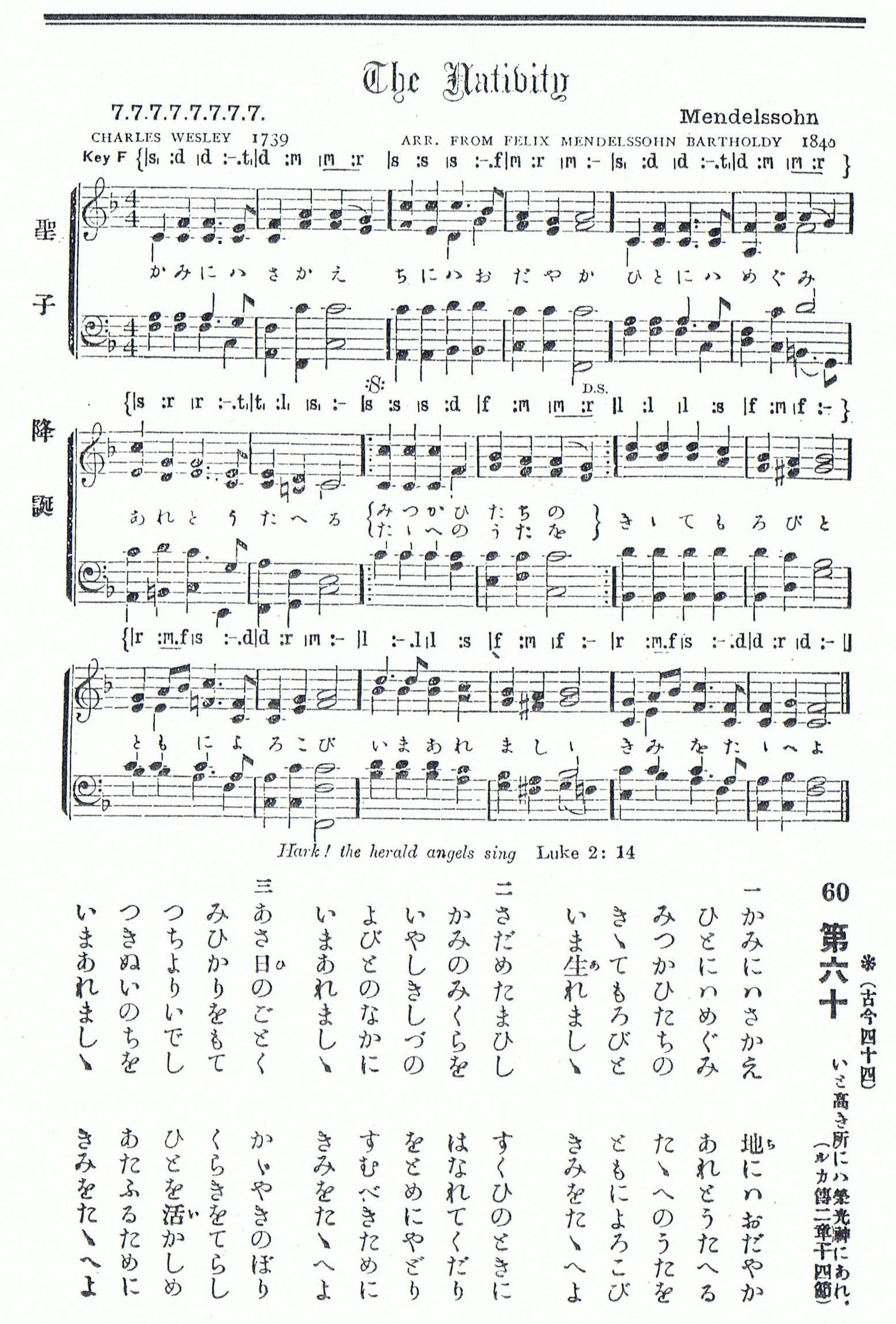 Hark! The Herald Angels Sing